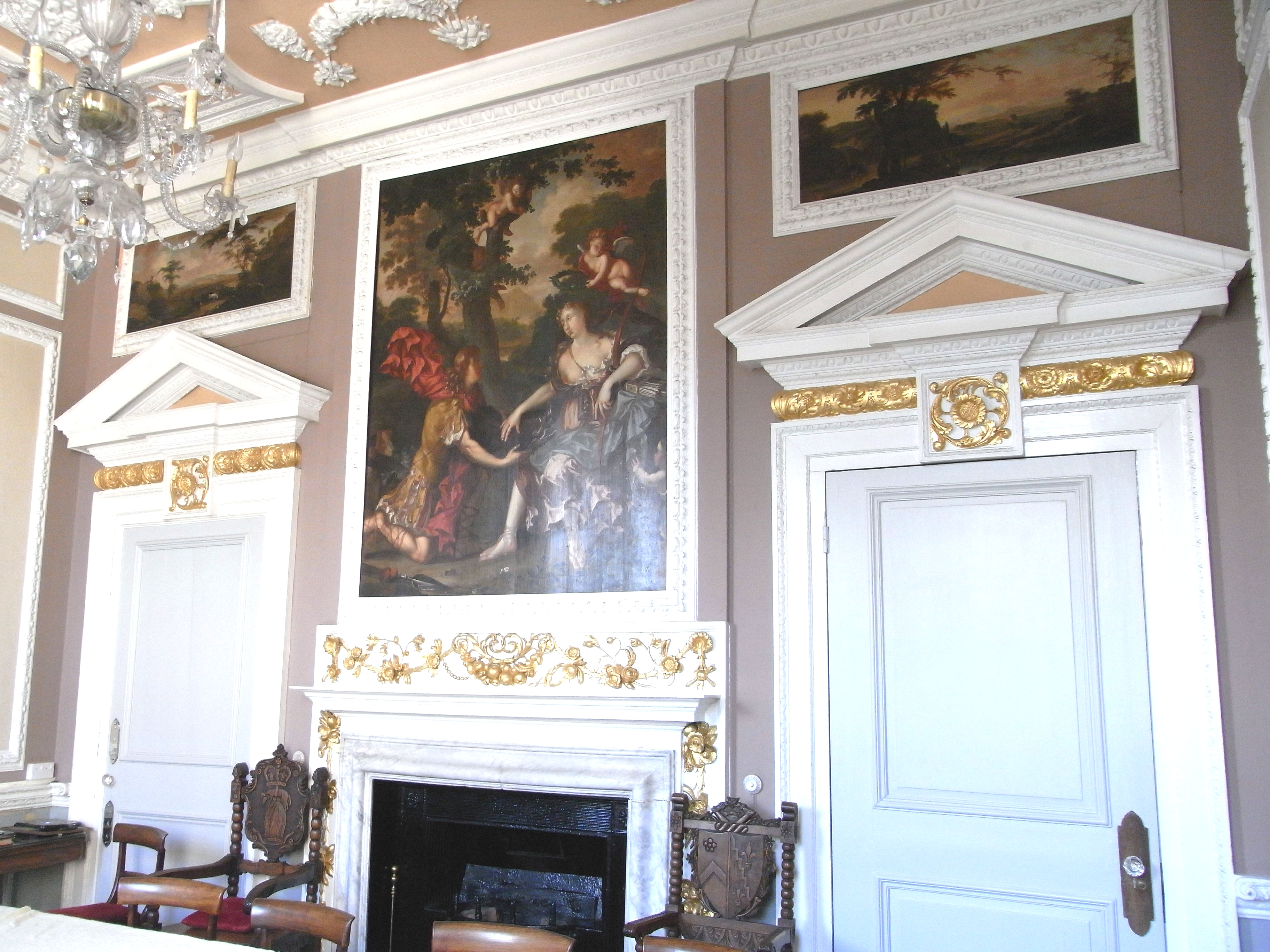 The Mayor's Parlour, The Guildhall, South Molton, Devon. The entire room was removed from Stowe House, Kilkhampton, Cornwall, demolished in 1739. The Guildhall in South Molton was designed 1739-41 by Mr Cullen. The Mayor's Parlour has gilded panelling, decorated plaster ceiling, four pedimented doorcases with overmantel painting of Atalanta presented with the head of the Caledonian Boar by Meleager. Capriccio scenes in small rectangular panels above the doors. (Pevsner, N, The Buildings of England, London, 2004, p.749)